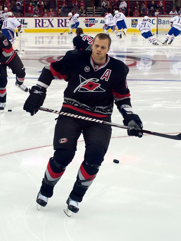 Tim Gleason of the Carolina Hurricanes